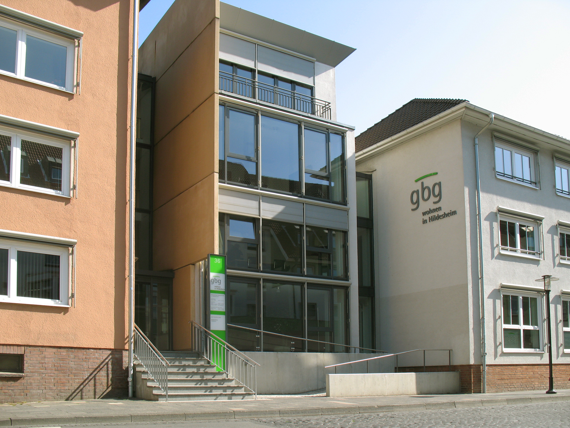 The office building of gbg in hildesheim.